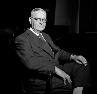 Portrait of Ambassador Frederick H. Boland, Permanent Representative of Ireland to the United Nations. United Nations, New York Photo # 159499